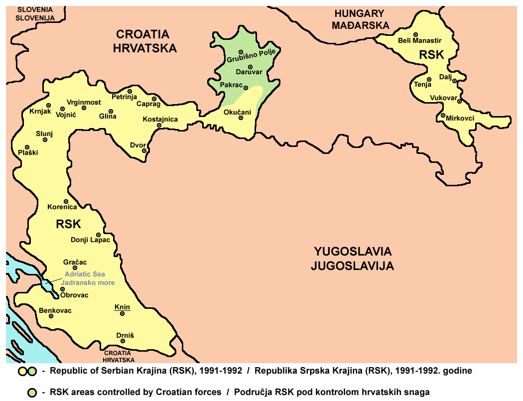 Republic of Serbian Krajina (RSK), 1991-1992.